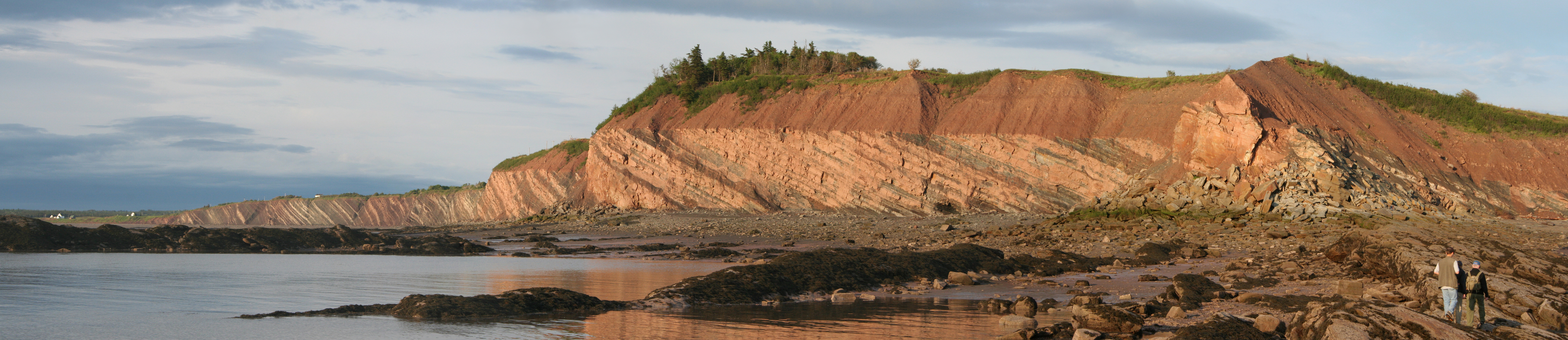 View of the lower 600 m of the Joggins Formation (Pennsylvanian), part of the Joggins Fossil Cliffs UNESCO World Heritage Site, seen from Coal Mine Point. The tilted Joggins beds are overlain by reddish glacial deposits (till) of Pleistocene age.